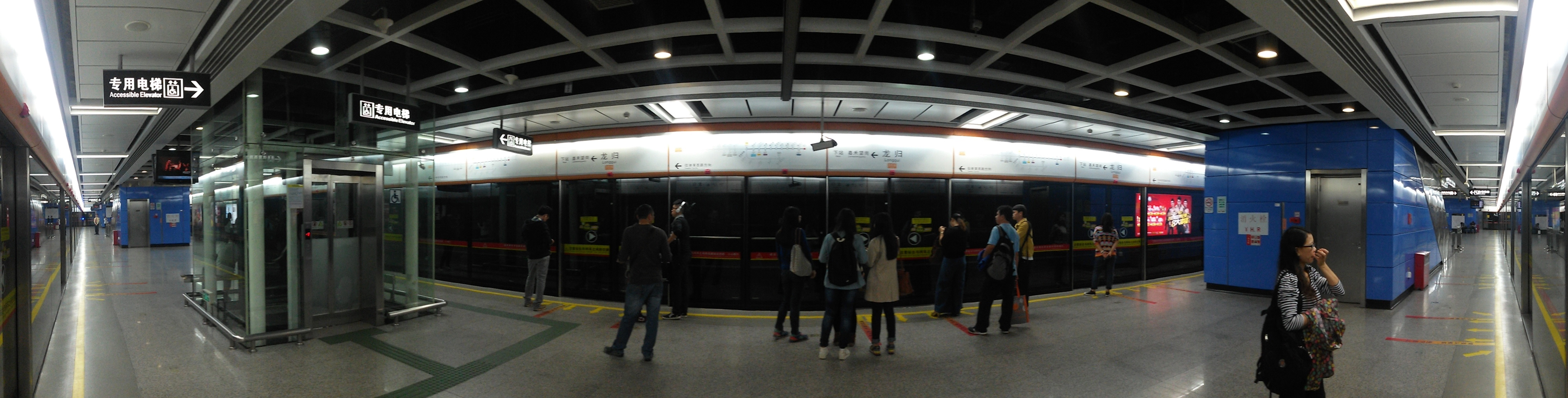 FULL SIGHT of Platform for Longgui Station (Towards Airport South Station) in Guangzhou Metro.